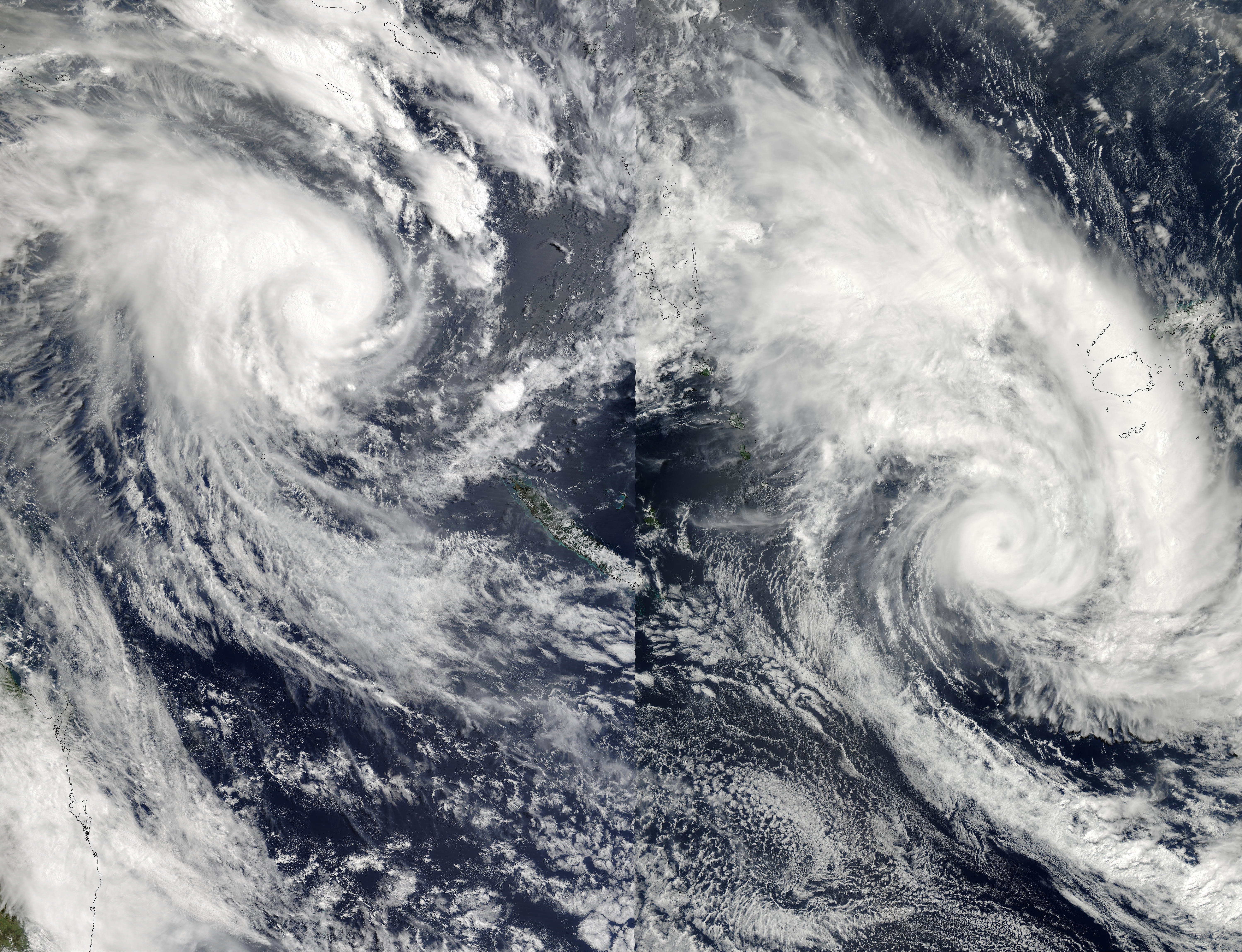 This combination image made of two consecutive passes of the Terra satellite over southwestern Pacific Ocean shows Tropical Cyclone Eseta off the island of Fiji (right) and Tropical Cyclone Erica off the northeast coast of Australia (bottom left). The image was acquired on March 11, 2003.